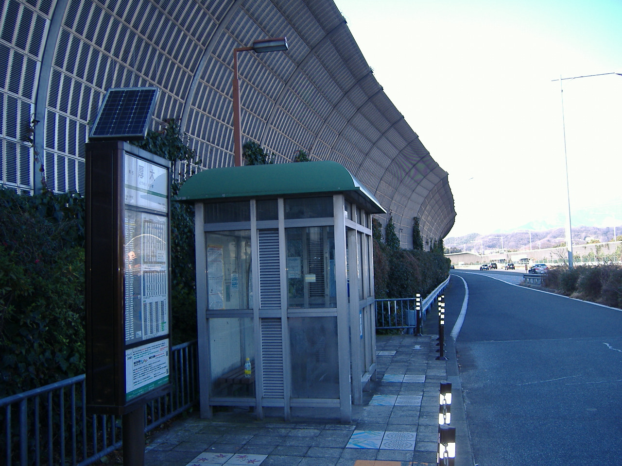 Tomei Expressway, Atsugi Busstop (Atsugi, Japan)